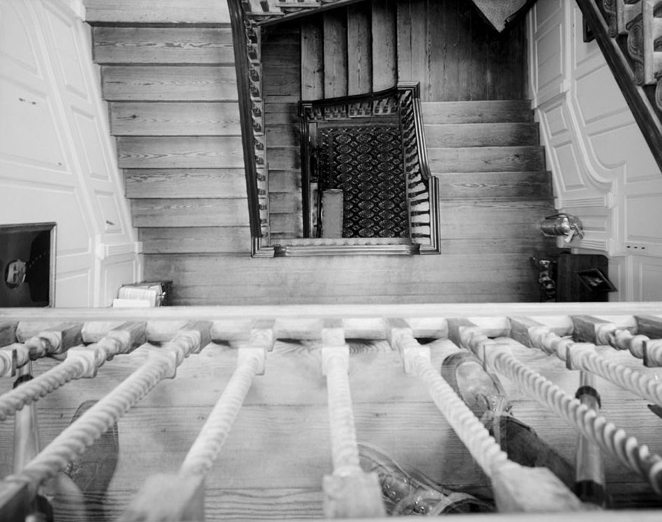 View of the stairway at Westover Plantation, looking from third floor down to first. Westover Plantation, built by William Byrd III, is located at State Route 633, Charles City vicinity, Charles City County, Virginia. Photograph from the Historic American Buildings Survey, The Library of Congress, Washington, D. C.